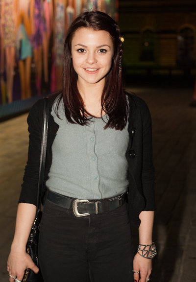 Kathryn Prescott attending London Fashion Week 2010